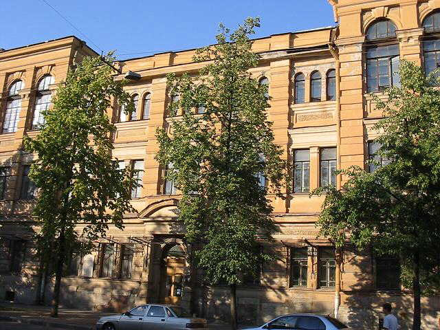 Geography Department of St. Petersburg University